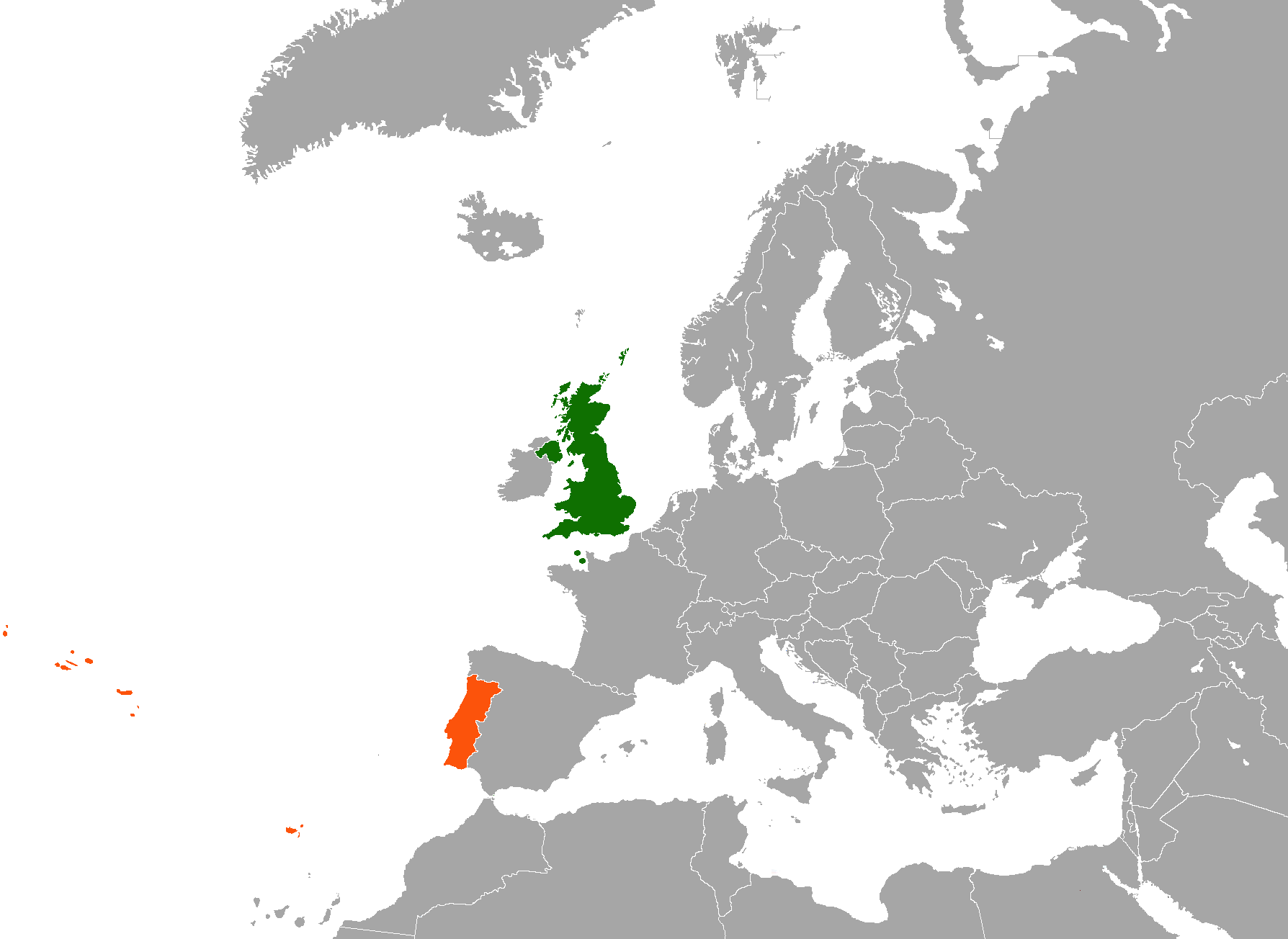 Map of Europe indicating the United Kingdom and Portugal. For use in British-Portuguese relations and similar articles.